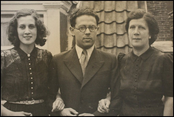 Tina Strobos (=Tineke Buchter), her fiancee Abraham (Bram) Pais and her mother Marie Schotte in 1941